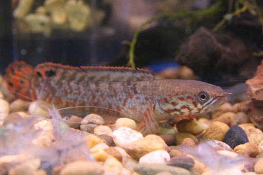 A rainbow snakehead fish (Thai: ปลาช่อนเจ็ดสี) or Channa bleheri at the 20th Pramong Nomklao fish show event at the Future Park Rangsit, Thailand, in July 2008. Picture taken by myself.